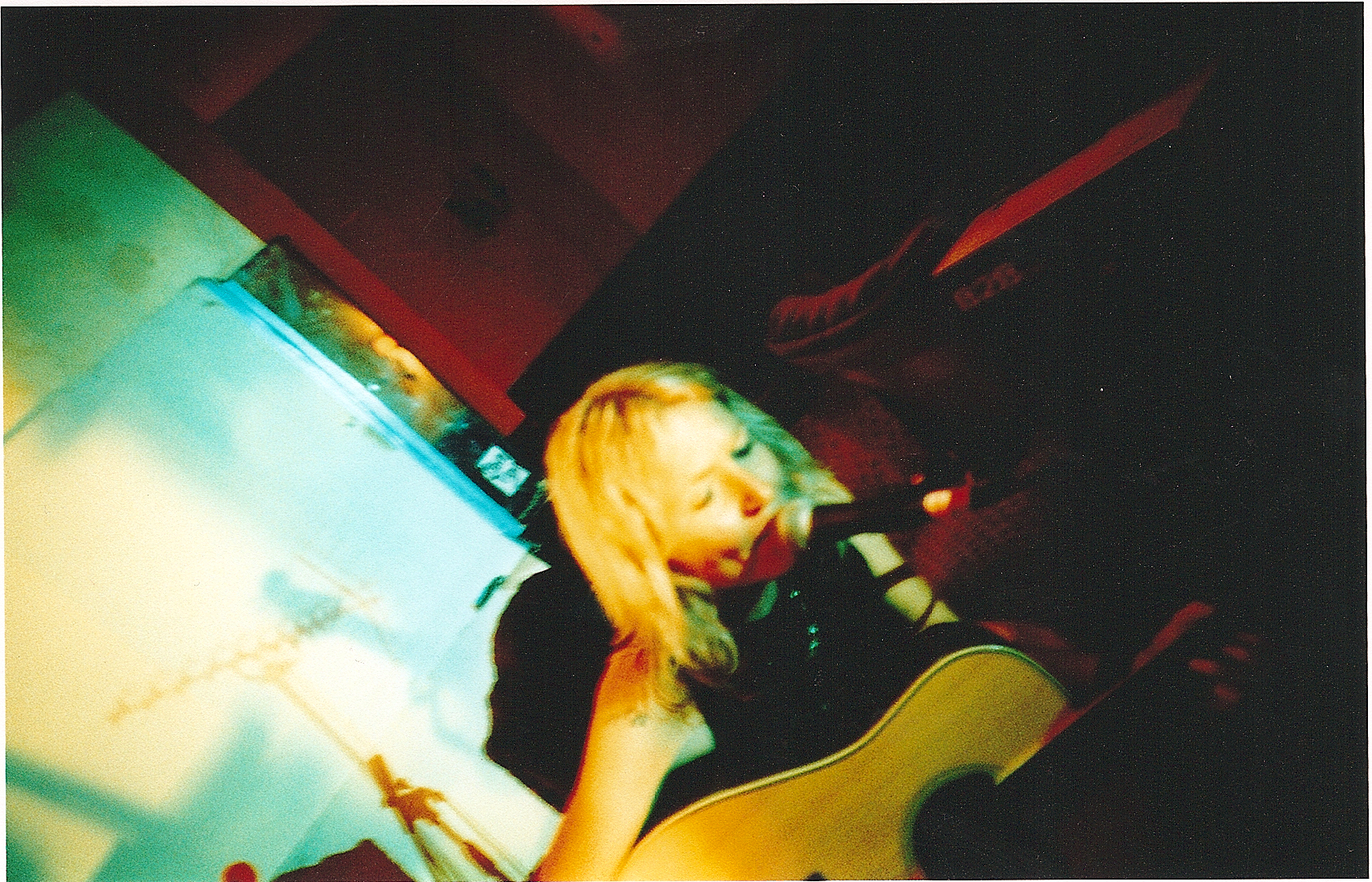 it's jo and danny - jo german tour